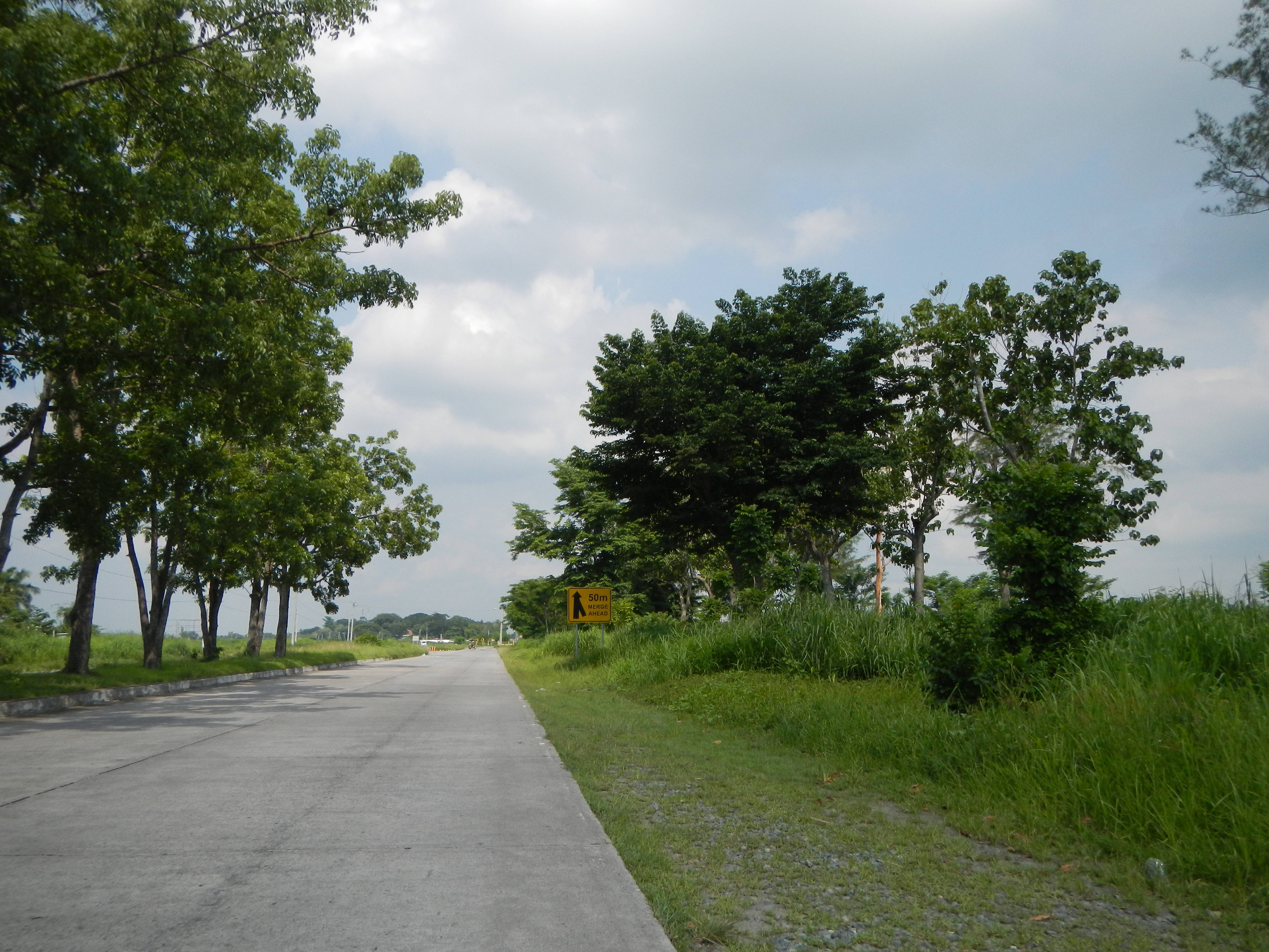 Hacienda Luisita Road (San Miguel, Capehan, Balite, Lourdes, Central and Mapalacsiao, Tarlac City) Hacienda Luisita spans various municipalities in Tarlac province, including the capital Tarlac City founded on 26 November 1881 by a Spaniard, Antonio López y López the estate was named after Antonio's wife, Luisa Bru y Lassús - Road, from Barangay San Miguel, Tarlac to Balite, Lourdes, Central and Mapalacsiao, Tarlac City.